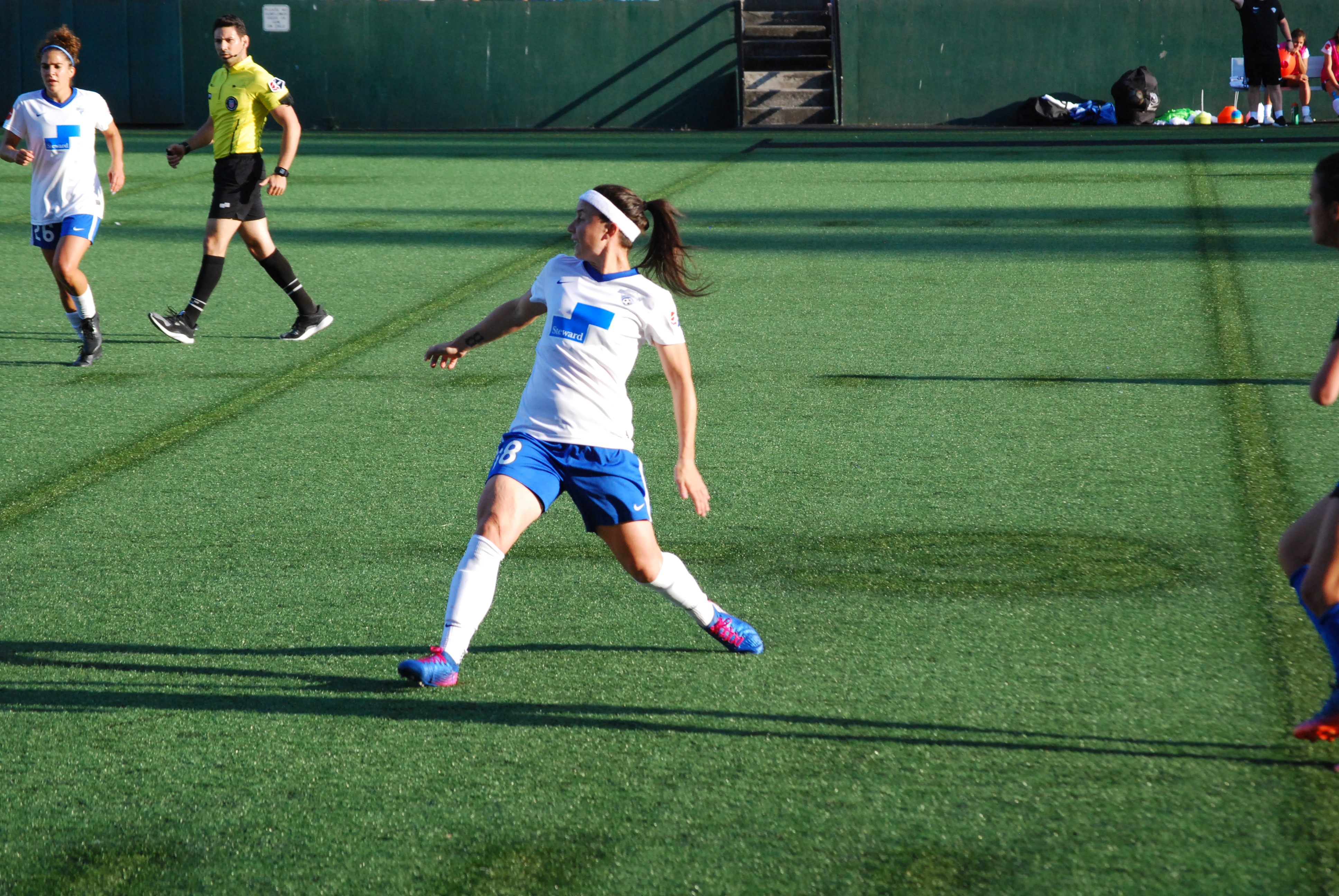 Tiffany Weimer during a match against the Seattle Reign FC, July 15, 2017